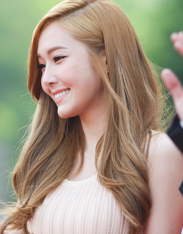 Jessica Jung at The Musical Awards red carpet on June 3, 2013.